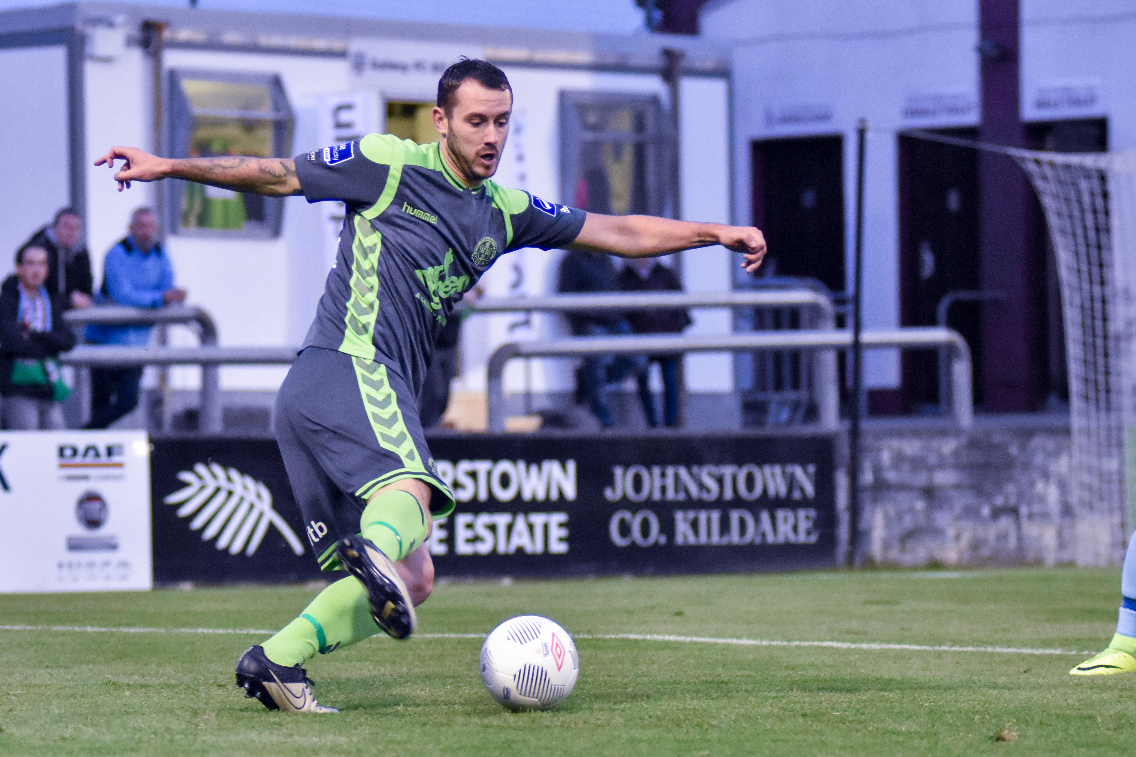 Kurtis Byrne in action for Bohemians in the 2016 League of Ireland